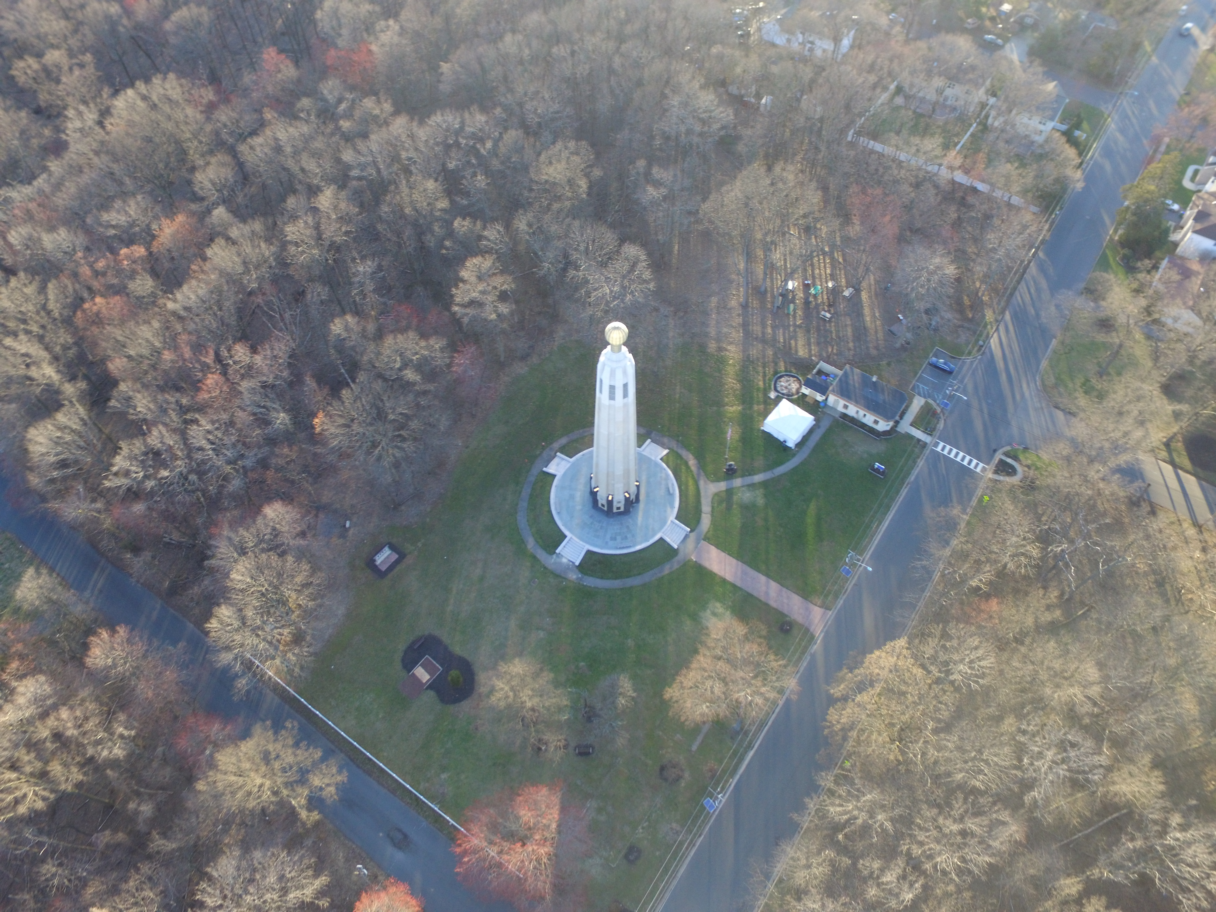 Overhead view of the Thomas Alva Edison Memorial Tower and surrounding park, taken from above, looking Southwest